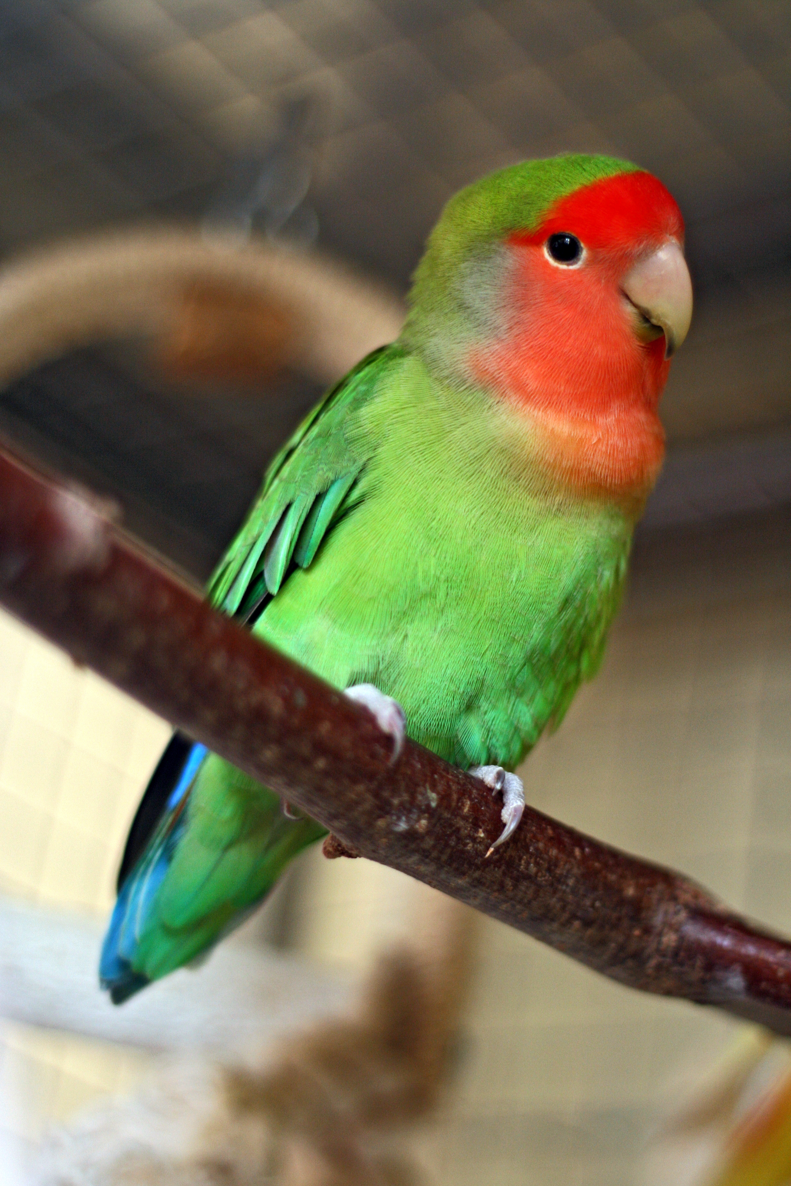 Peach-faced Lovebird (Agapornis roseicollis). Pet on a perch. Shows blue rump feathers.Frici (IMG_2292)